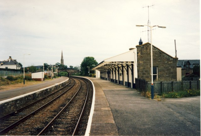 Invergordon railway station Original description: Invergordon station